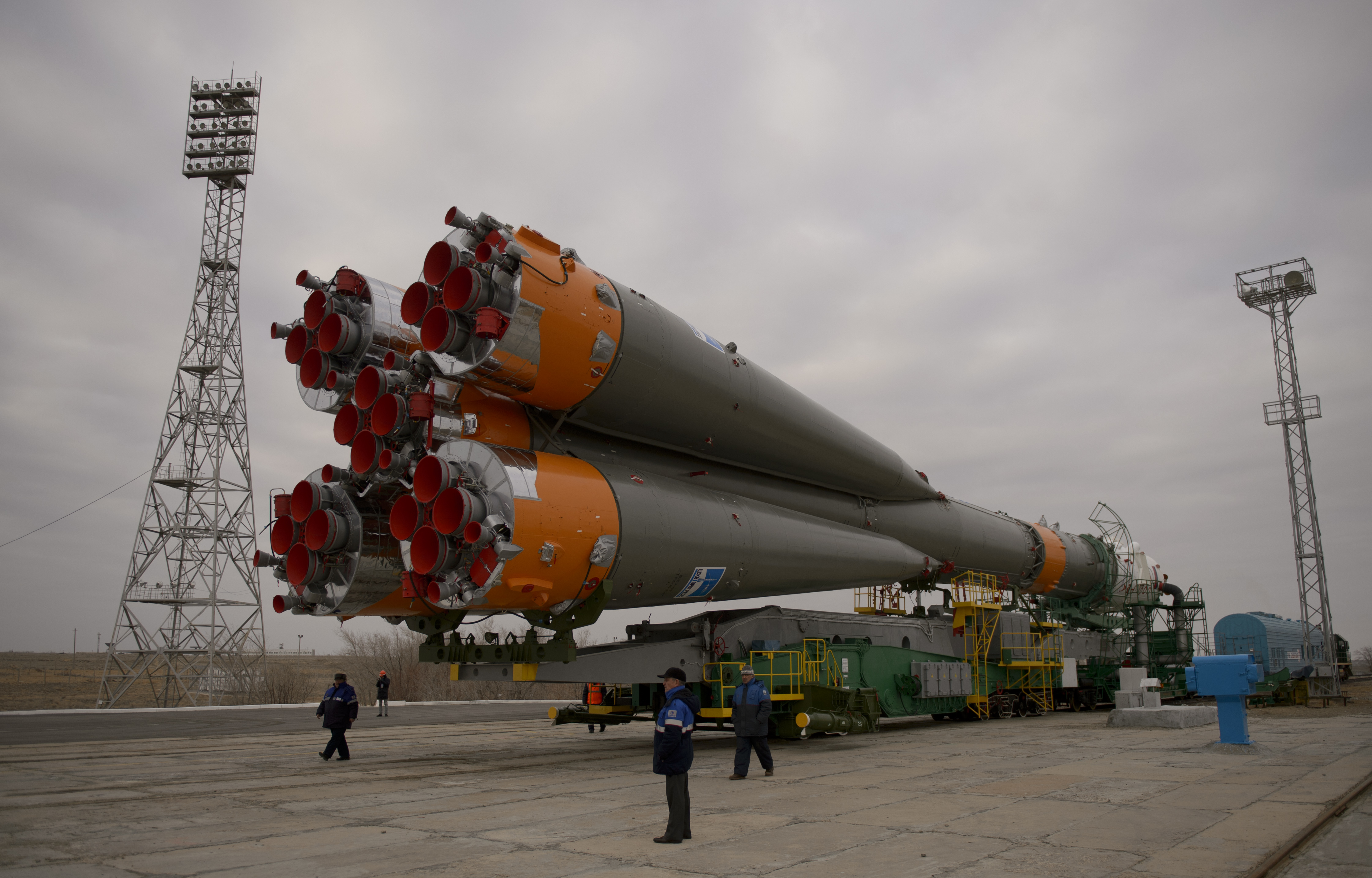 The Soyuz TMA-12M spacecraft is rolled out to the launch pad by train on Sunday, March 23, 2014, at the Baikonur Cosmodrome in Kazakhstan. Launch of the Soyuz rocket is scheduled for March 26 and will send Expedition 39 Soyuz Commander Alexander Skvortsov of the Russian Federal Space Agency, Roscosmos, Flight Engineer Steven Swanson of NASA, and Flight Engineer Oleg Artemyev of Roscosmos on a six-month mission aboard the International Space Station.